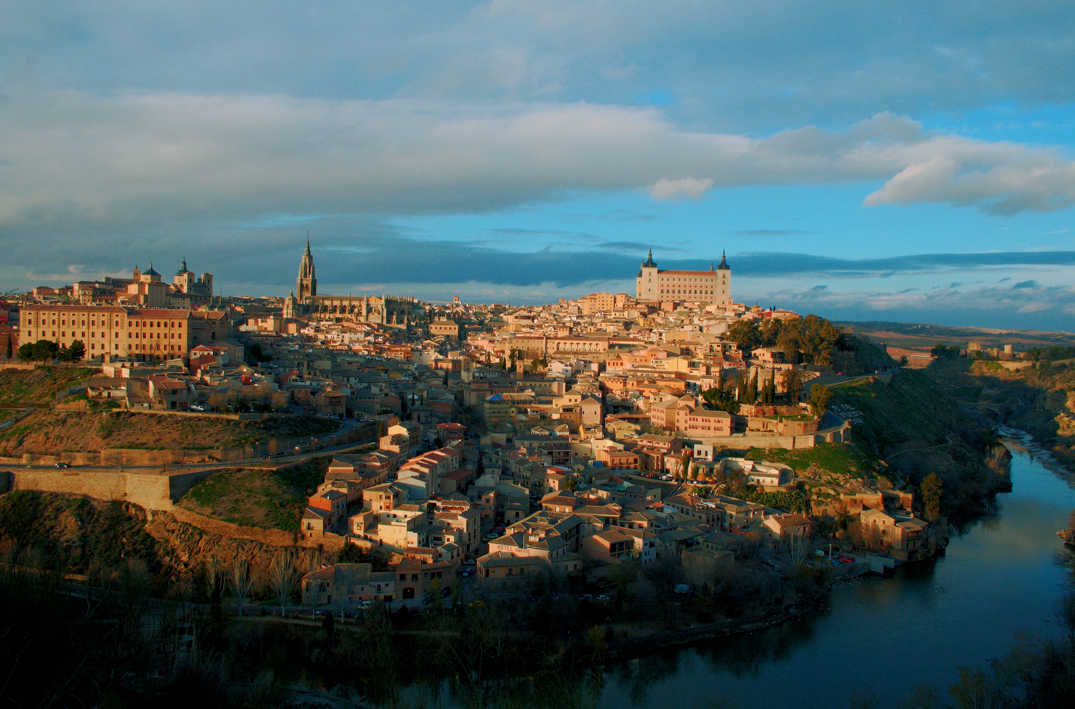 Toledo, the city located a three hundred feet above the right bank of the Río Tajo (Tagus River).